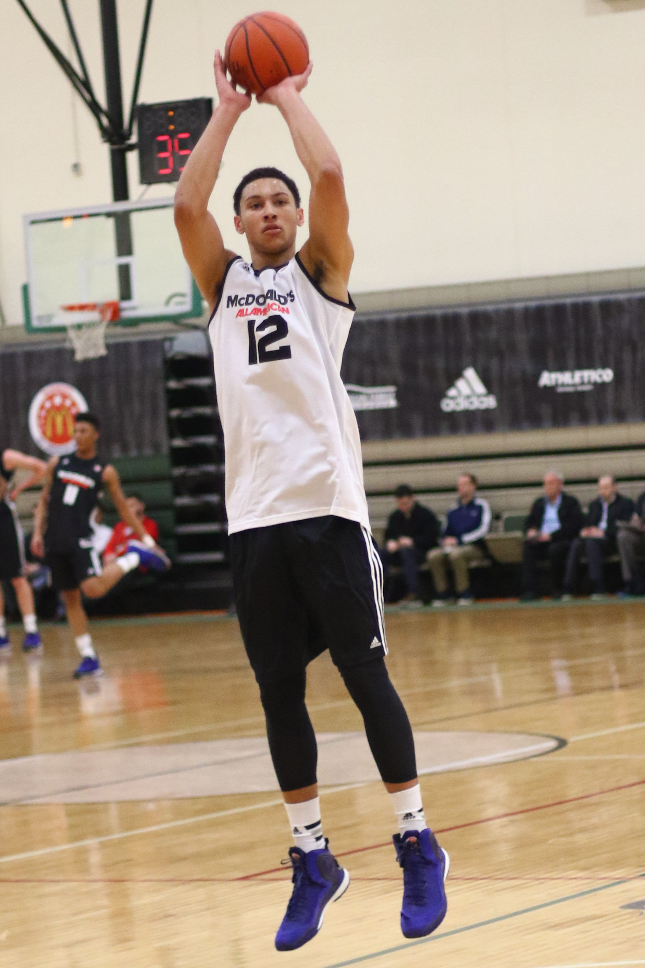 Ben Simmons in the w:2015 McDonald's All-American Boys Game closed practice